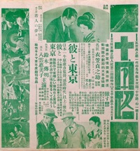 Movie poster for 1928 Japanese movie 十字路 (Jujiro), also known as Crossroads, Crossways, Shadows of the Yoshiwara or Slums of Tokyo.